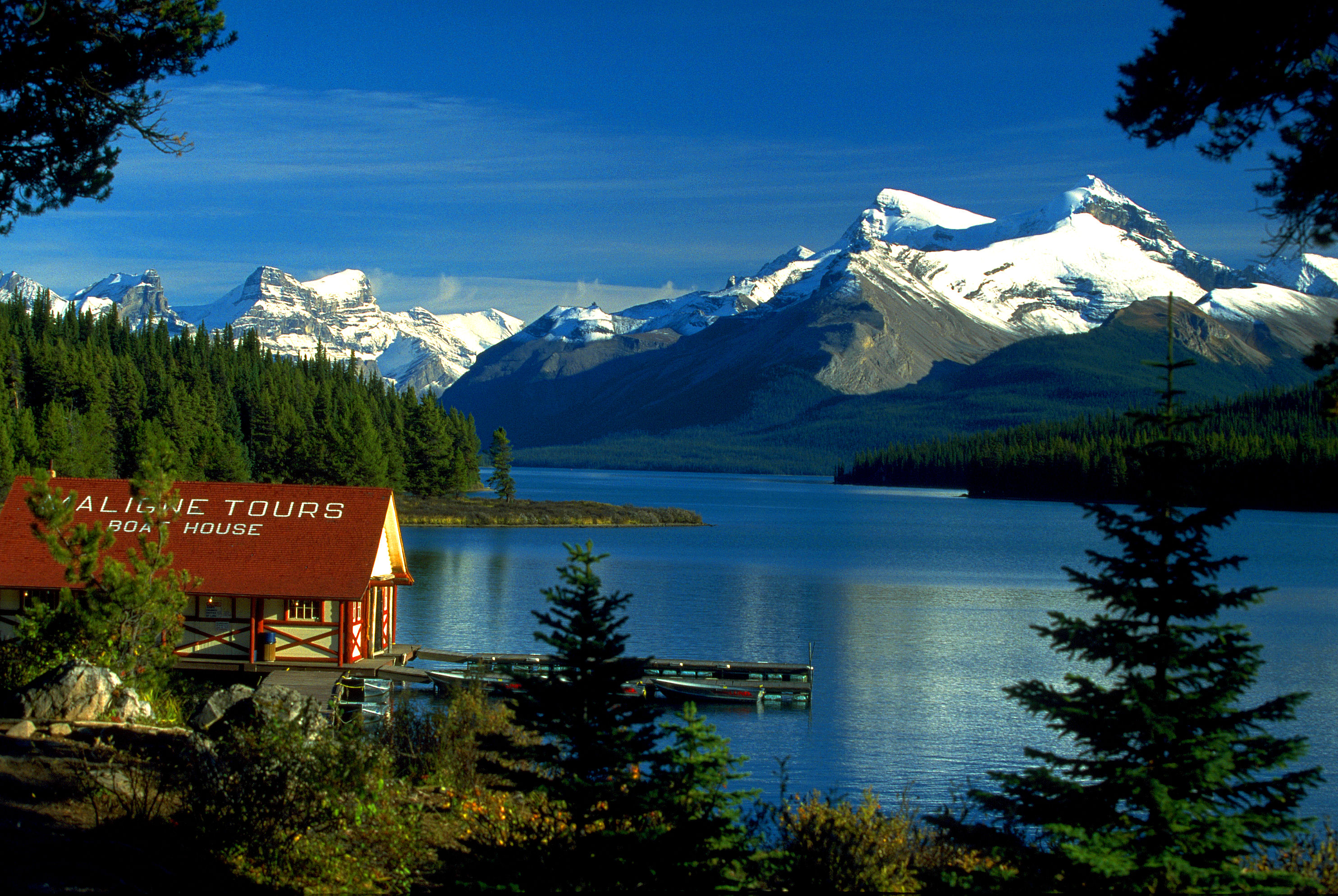 Boat House, Maligne Lake, Jasper National Park, Alberta, Canada